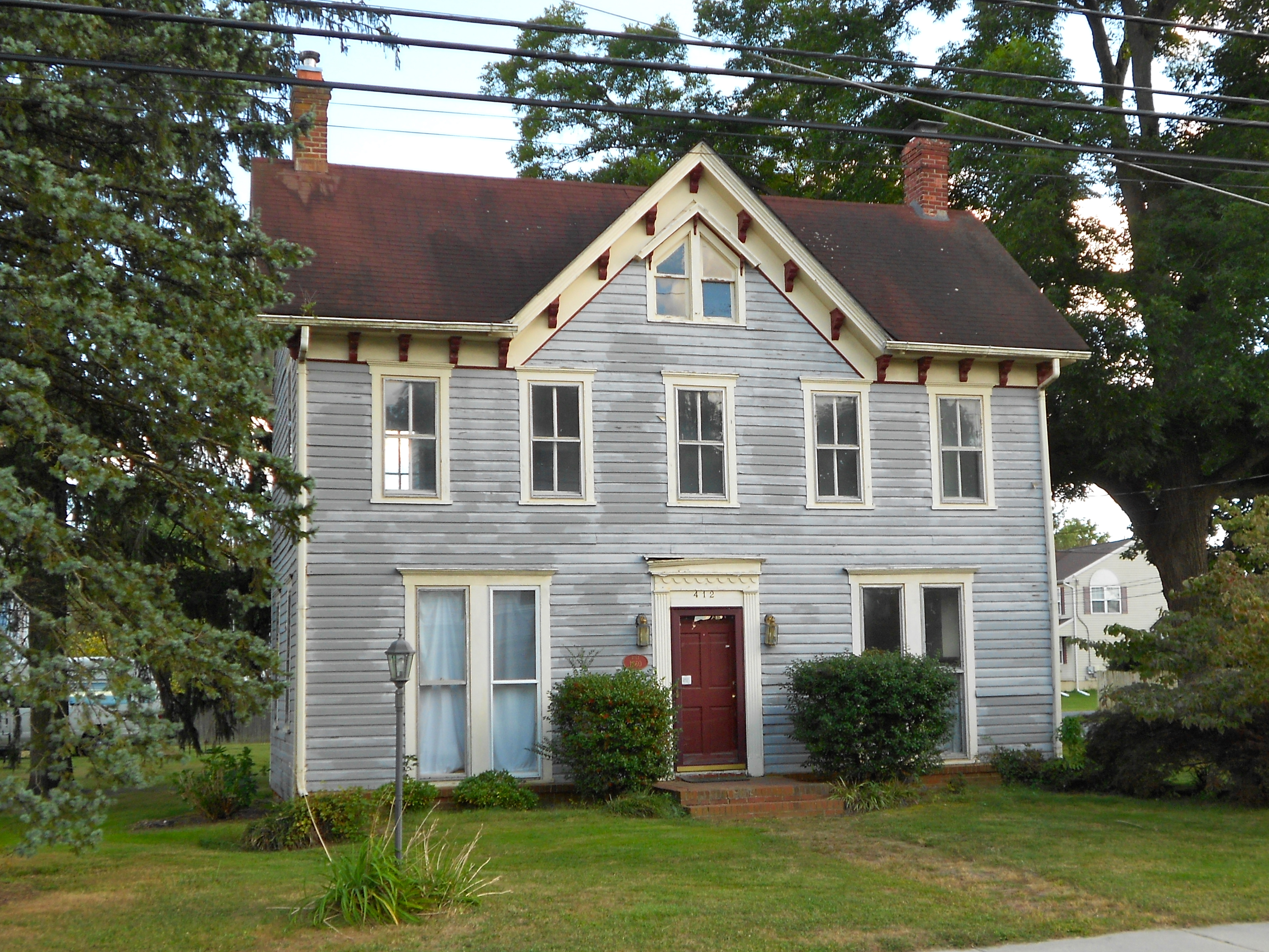 Building in Townsend Historic District listed on the NRHP on May 8, 1986. The historic district is roughly bounded by Gray, Ginn and South, Lattamus and Main Sts., and Commerce St. and Cannery Ln. and Railroad Ave., in Townsend, Sussex County, Delaware